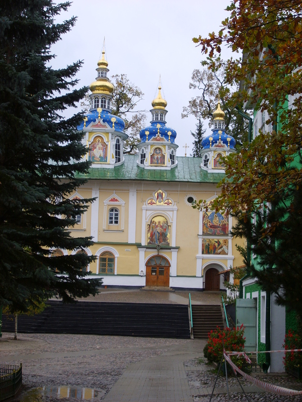 Pskovo-Pechersky Monastery. Uspenskaja Church